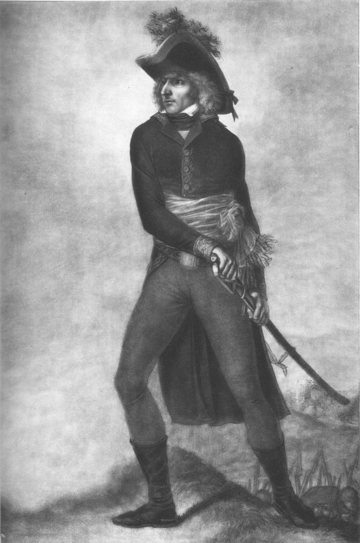 Charles XIV John of Sweden and Norway in his days as a French field marshal